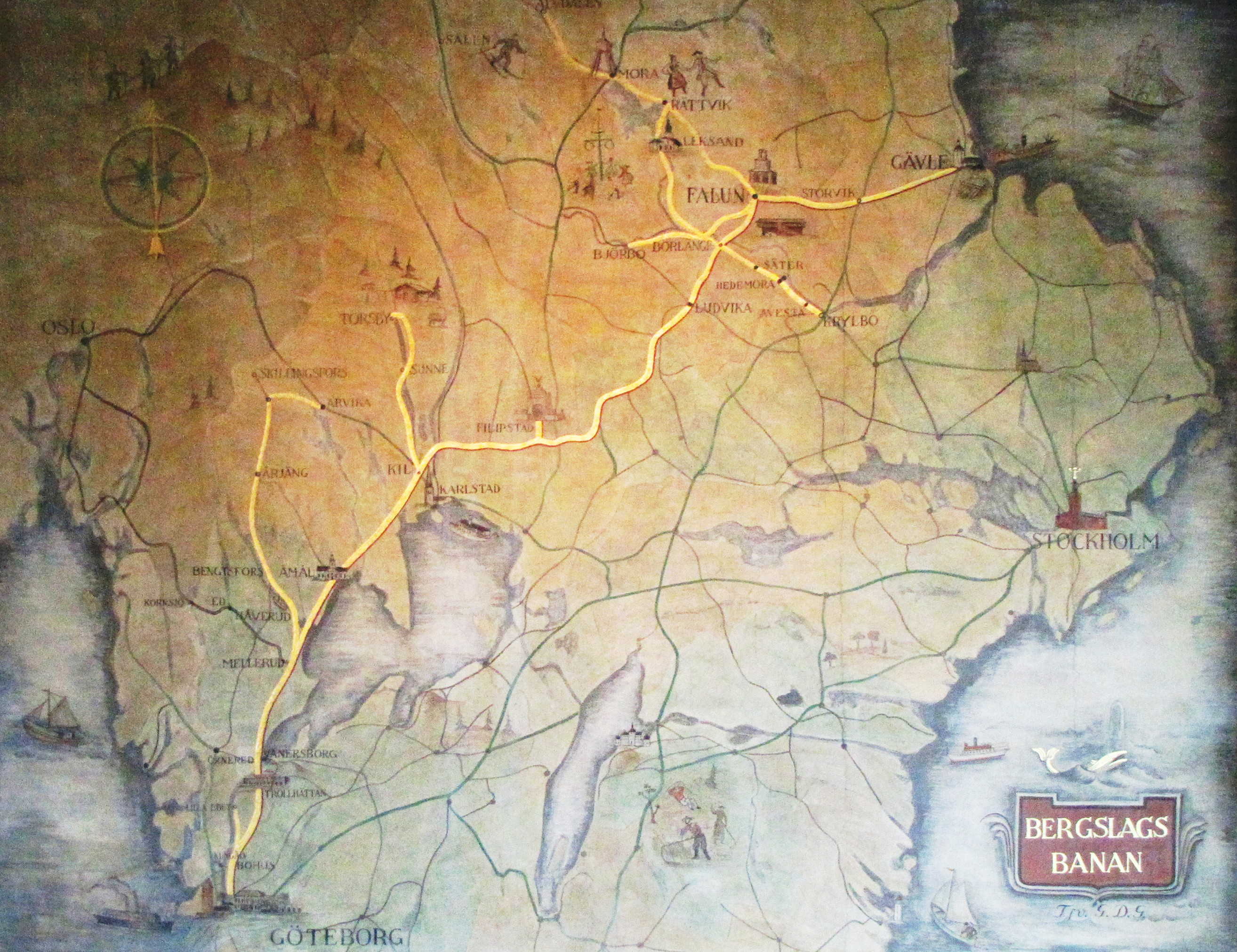 Göteborg central railway station, a painting on the wall showing the path of the former "Bergslagsbanan" railway line.